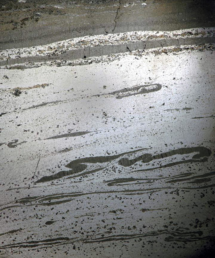 Banded massive sulfide (SEDEX silver-lead-zinc ore) (field of view: ~3.9 cm across) from the Sullivan Deposit with contorted bedding from soft-sediment slumping. Silvery-gray = argentiferous galena (Pb,Ag)S Very dark bands = sphalerite (ZnS) British Columbia’s Sullivan Mine targeted a massive sulfide deposit consisting of silver, zinc, and lead ore minerals. The ore rocks have interesting contorted banding. This is an unusual example of a sulfide deposit having a sedimentary origin. The Sullivan Deposit is a SEDEX deposit, which stands for sedimentary exhalative deposit. It formed by seafloor deposition of silver, zinc, and lead sulfide mineral grains “exhaled” from underwater vents somewhat akin to black smokers. At the Sullivan Deposit, SEDEX deposition occurred in the collapsed crater of a mud volcano formed by emplacement of regional gabbroic sills into wet, unconsolidated, seafloor sediments that were filling a continental rift basin - a bit of a complex geologic origin. The folded and contorted bedding seen in the sulfide layers formed by soft-sediment slumping. Stratigraphy & Age: lower member-middle member boundary of the Aldridge Formation (a turbidite-sill succession), Mesoproterozoic, 1470 Ma. Locality: Sullivan Mine, between Mark Creek and Sullivan Hills, just north-northwest of Kimberley, East Kootenay District, Belt-Purcell Intracratonic Rift, southeastern British Columbia, southwestern Canada (49° 42’ 36” North, 115° 59’ 58” West). Info. mostly synthesized from: Lydon, J.W. 2004. Genetic models for Sullivan and other SEDEX deposits. pp. 149-190 in Sediment-Hosted Lead-Zinc Sulphide Deposits, Attributes and Models of Some Major Deposits in India, Australia and Canada. Narosa Publishing House. New Delhi.